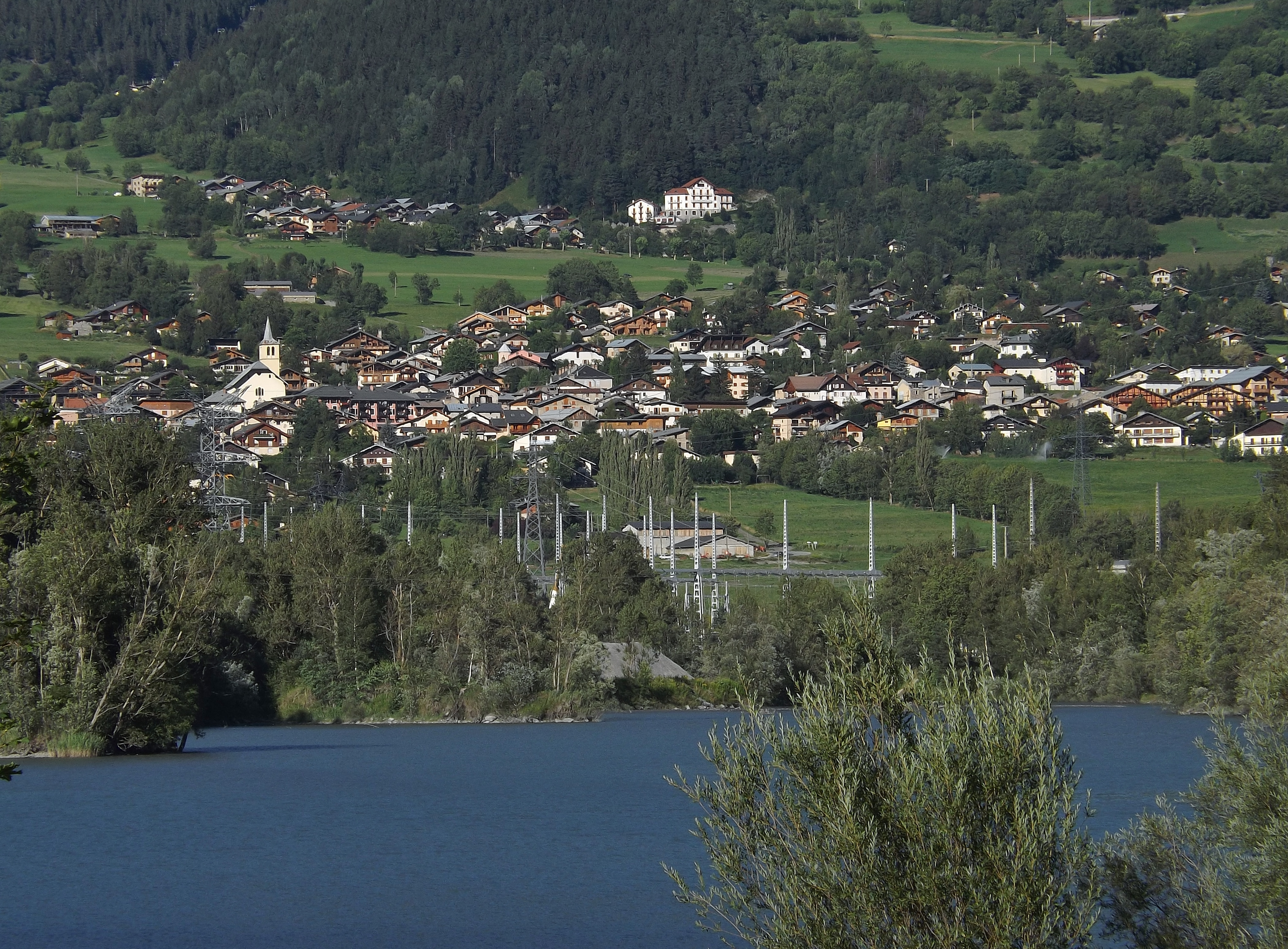 Panoramic sight of the French city of Séez, in the Tarentaise valley (Savoie).